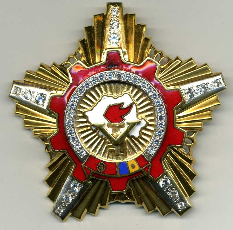 Order of the Victory of Socialism, Romanian Socialist Republic, smaller edition